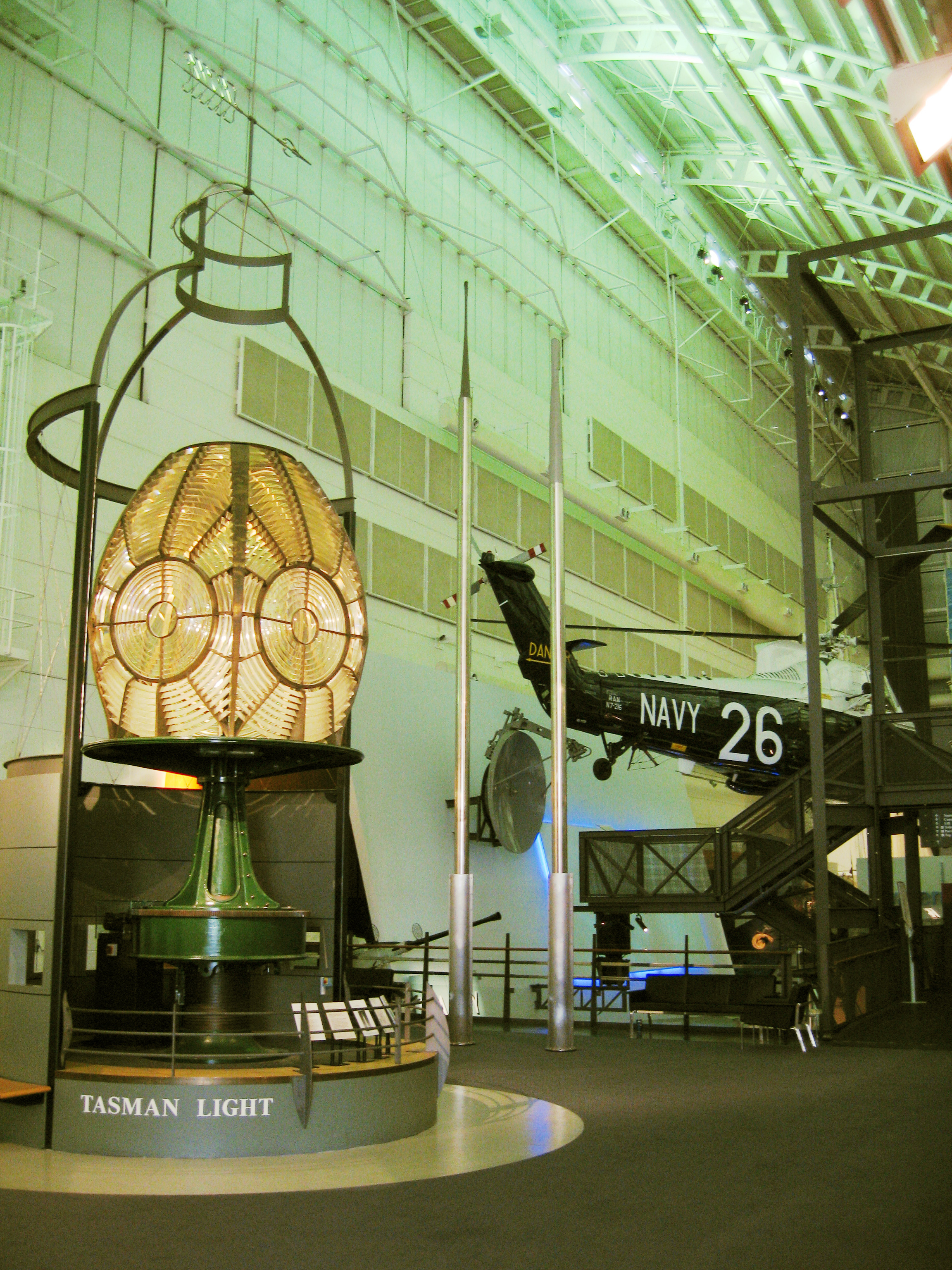 Entrance to the Tasman Light gallery, Australian National Maritime Museum, Darling Harbour, Sydney, Australia. The Fresnel lens on the left is a first-order dioptric lens from the Tasman Island Lighthouse, southern Tasmania, built by Chance Brothers of Smethwick. In the background is a Royal Australian Navy Westland Wessex Mark 31-B helicopter.